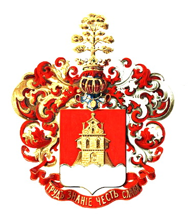 Coat of arms of the family Weiner